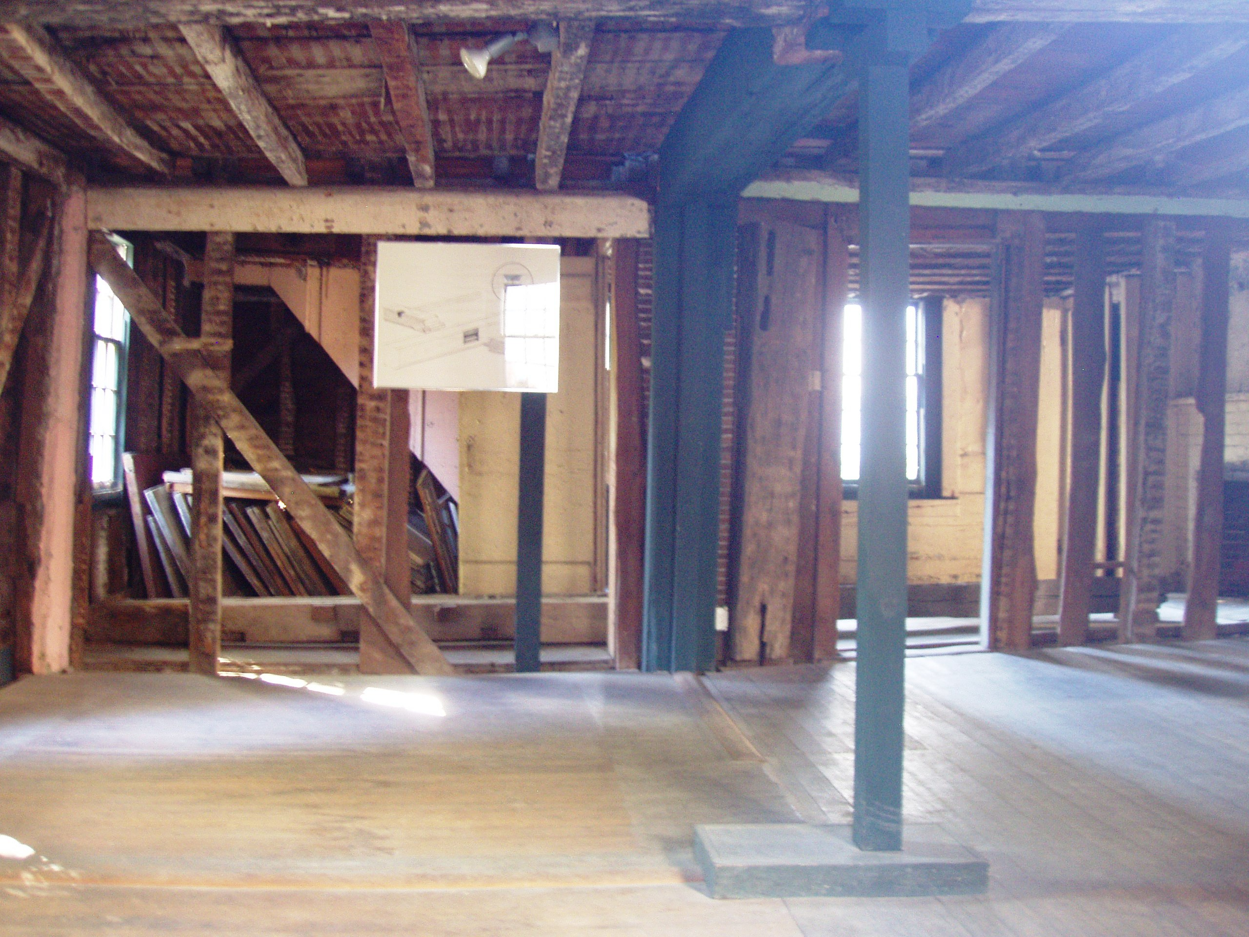 Gedney House - Salem, Massachusetts. Interior view (looking in through window). Photograph taken by me, September 2005.